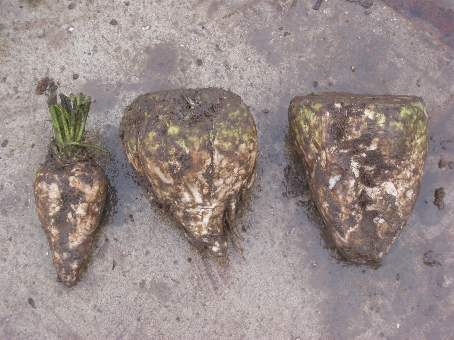 Beta vulgaris